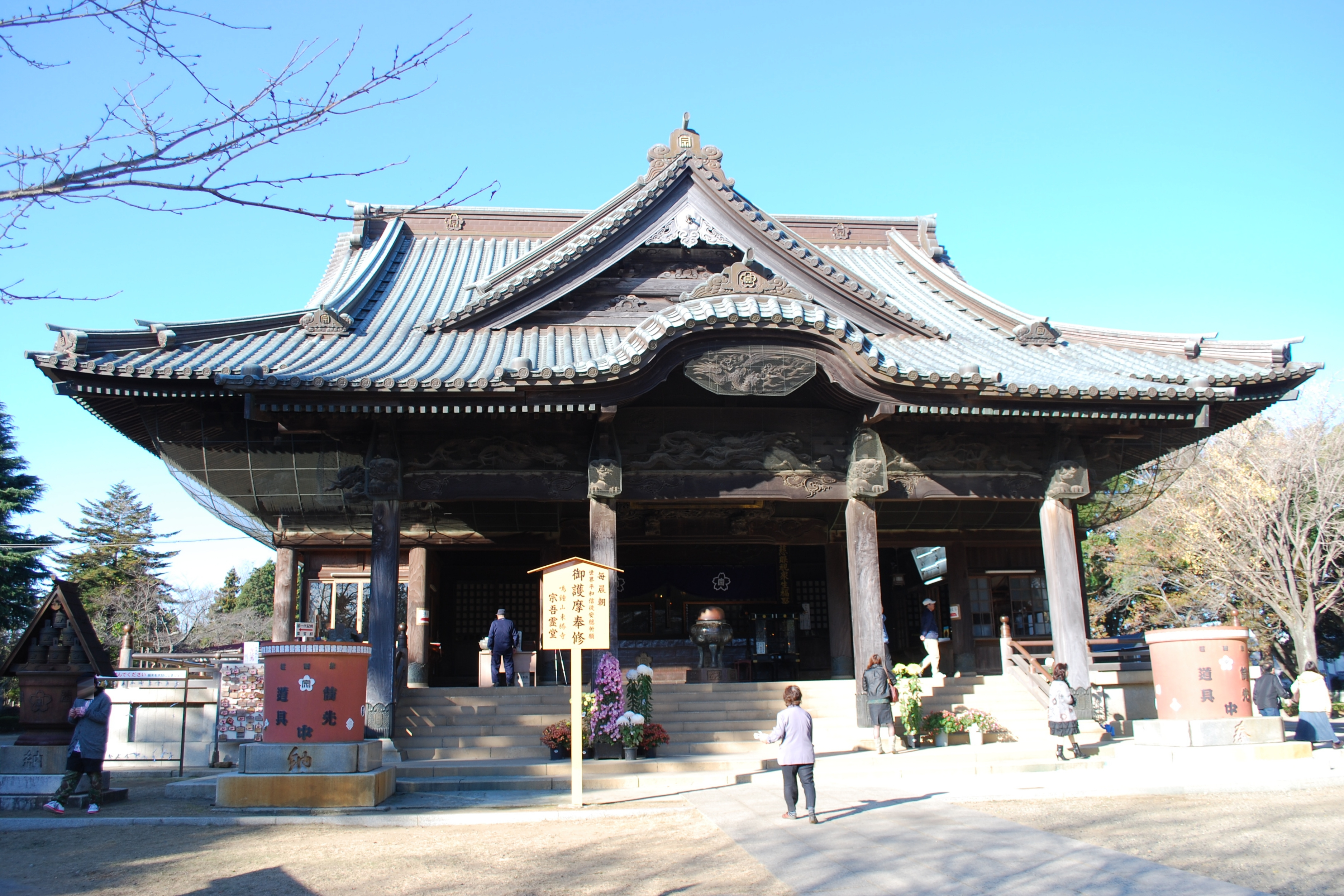 Dai-hondō hall of Tōshō-ji temple (Sōgo reidō) in Narita-city, Japan